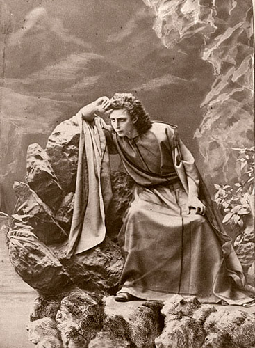 Soloist of the Bolshoi Paul Hohlov as Demon